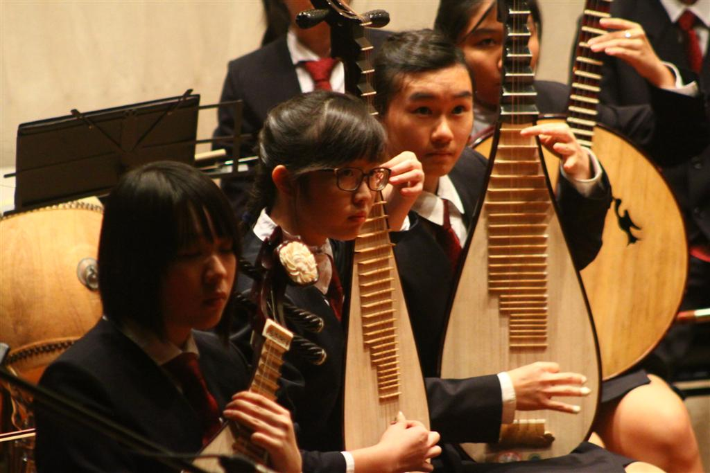 The plucked strings in the Chinese orchestra of Yishun Junior College.